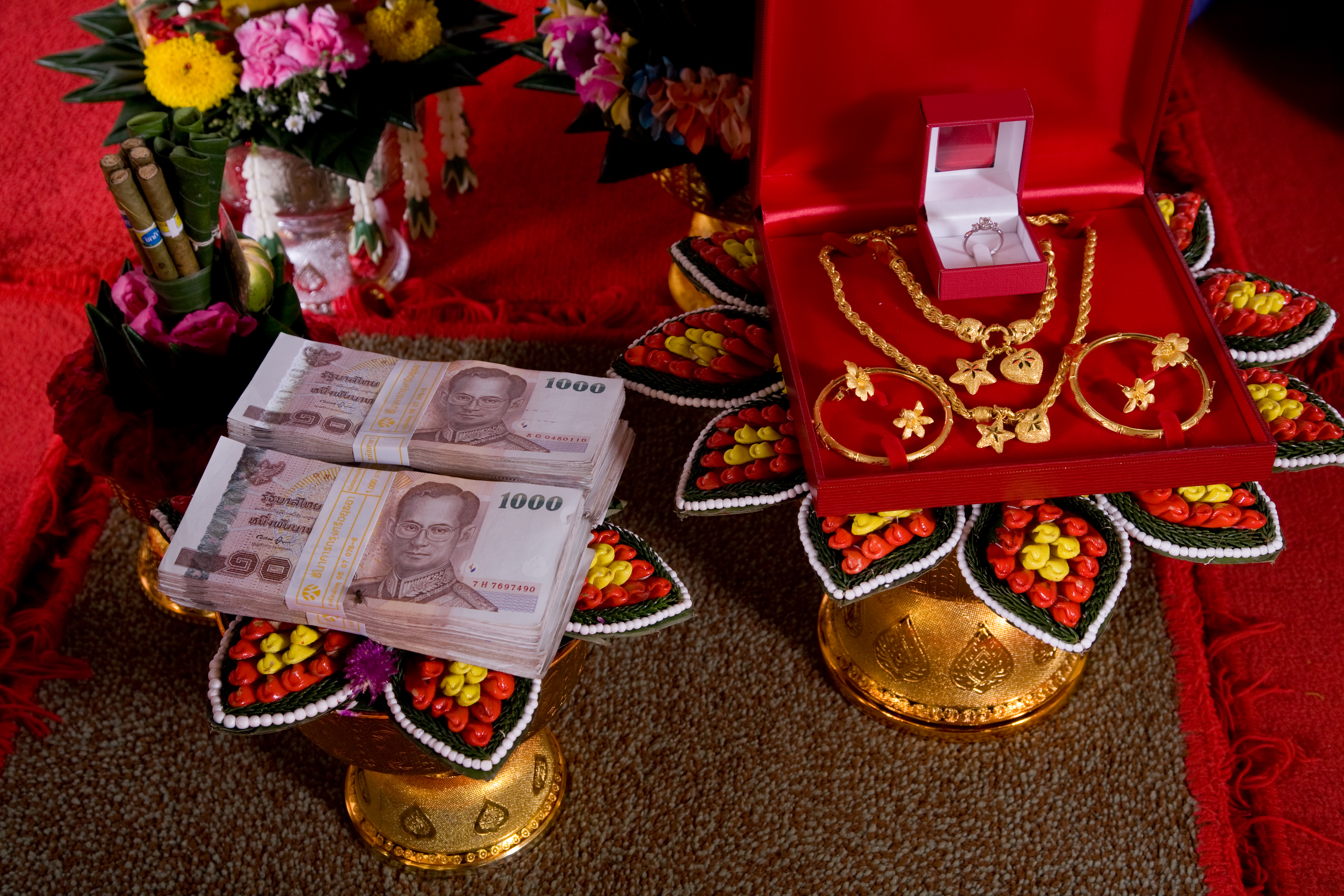 This photograph shows the traditional, formal presentation of the bride price (also known as "sin sot" or "dowry") at an engagement ceremony in Thailand.